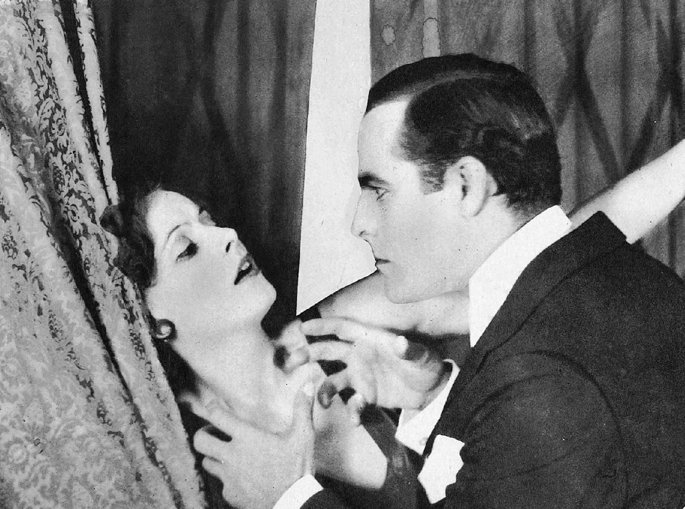 Still from the American drama film The Temptress (1926). The image is derived from this PD one: .